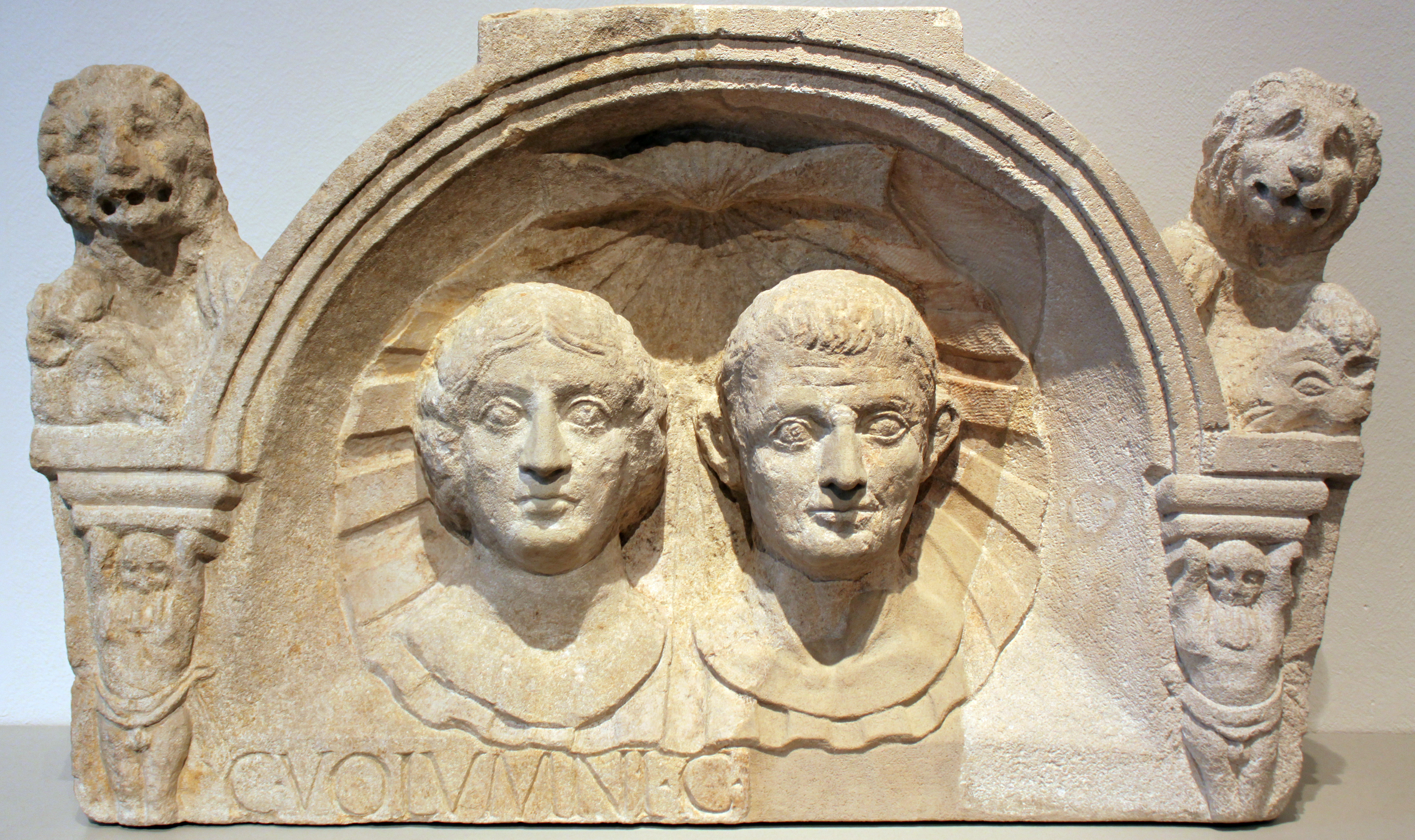 Tombstone of Gaius Volumnius and his wife; Upper Italy; 1-50 AD Altes Museum Native nameAltes MuseumLocationBerlinCoordinates52° 31′ 10″ N, 13° 23′ 54″ E Established1828Website control VIAF: 202689698 LCCN: n83197241 GND: 4506837-9 WorldCat Section: Life and Death in Rome, Sk 841